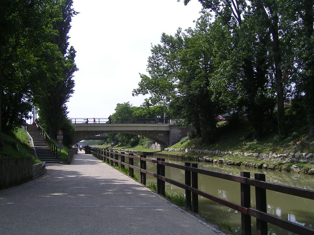 Pont de l'Ourcq Photo personnelle (own work) de Marianna